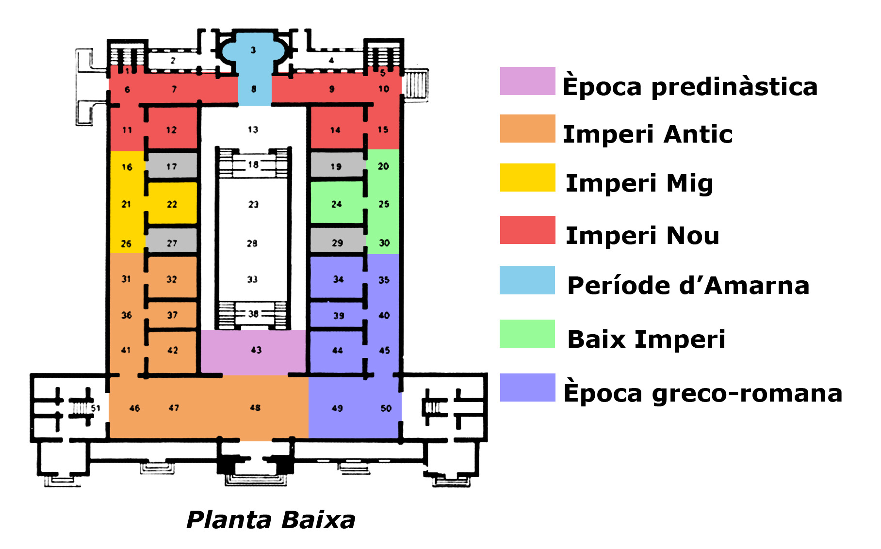 Egyptian Museum Cairo - Ground Floor.